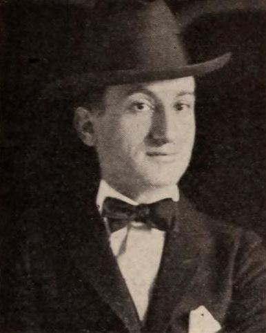 Film producer Abe Stern, then treasurer of the Universal Film Manufacturing Company (later Universal Pictures), on page 61 of the June 5, 1920 Exhibitors Herald.